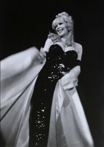 Babette Bardot at the Town Theater in Chicago, IL